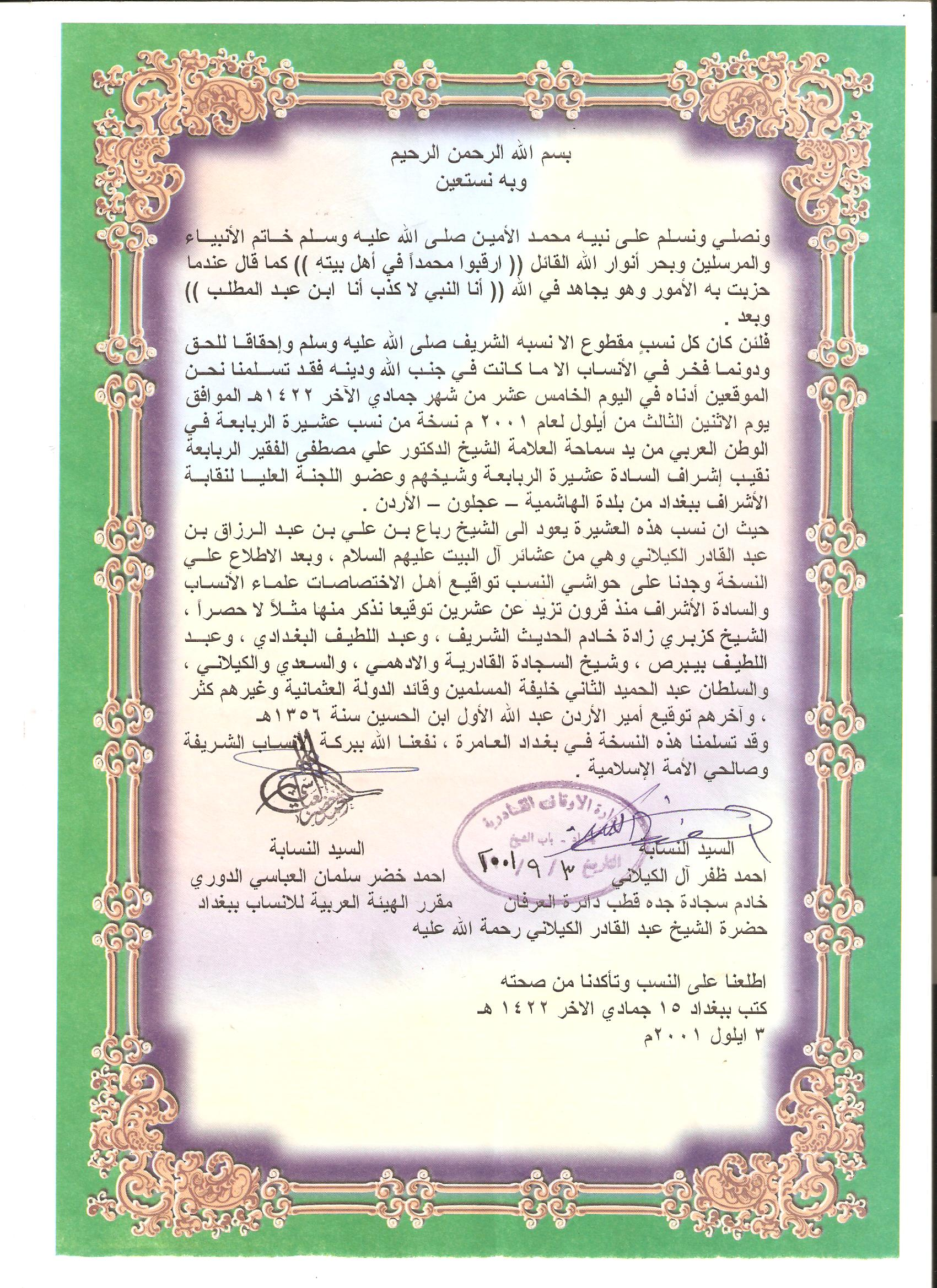 This is a certificate from the Iraqi government attesting to the ancestry of the Rababah family.